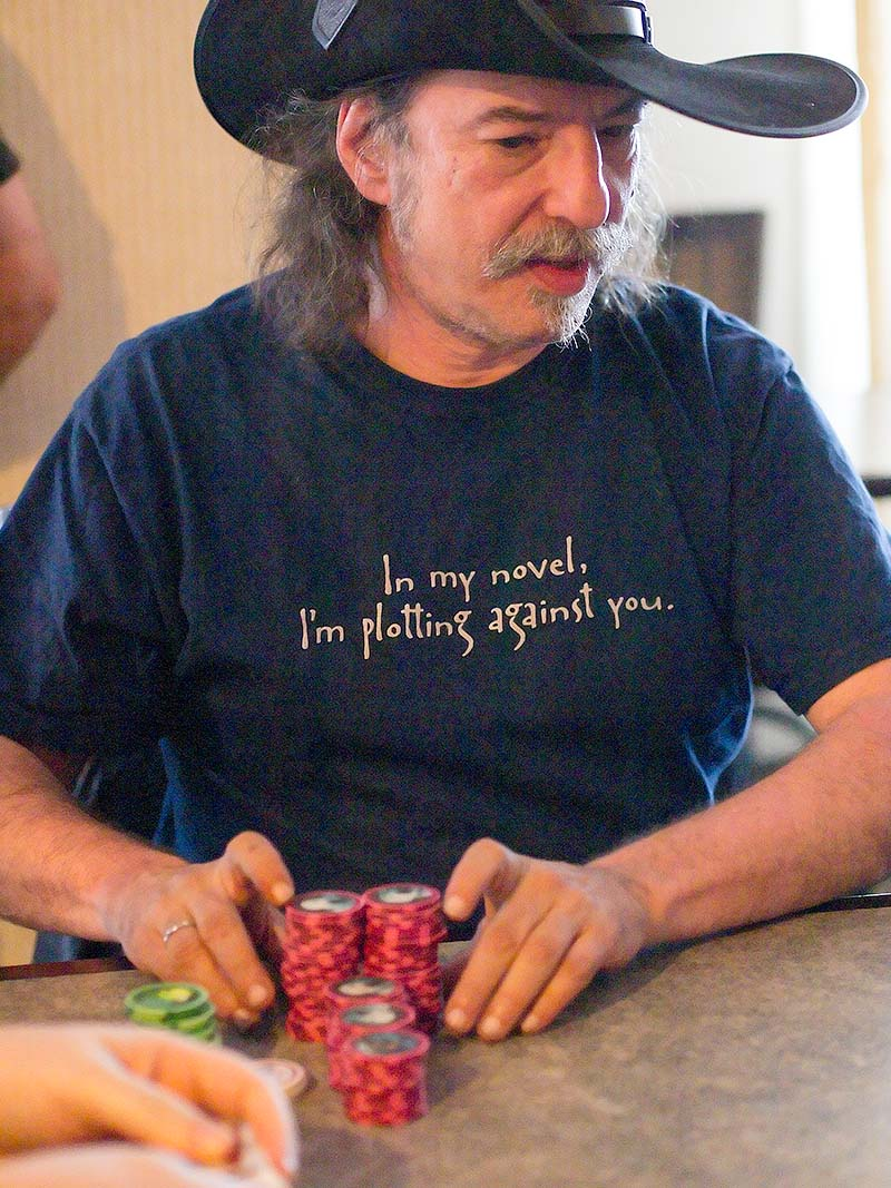 Author Steven Brust playing poker at the 2012 Fourth Street Fantasy Convention in Minneapolis, at the SpringHill Suites Minneapolis West